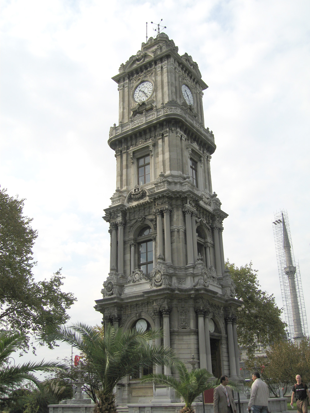 Clock Tower Dolmabahce